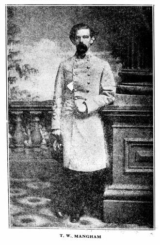 Col. Thomas Woodward Mangham, in Adamson, Augustus Pitt. Brief history of the Thirtieth Georgia Regiment. Griffin, Ga.: Mills Printing Co., 1912.